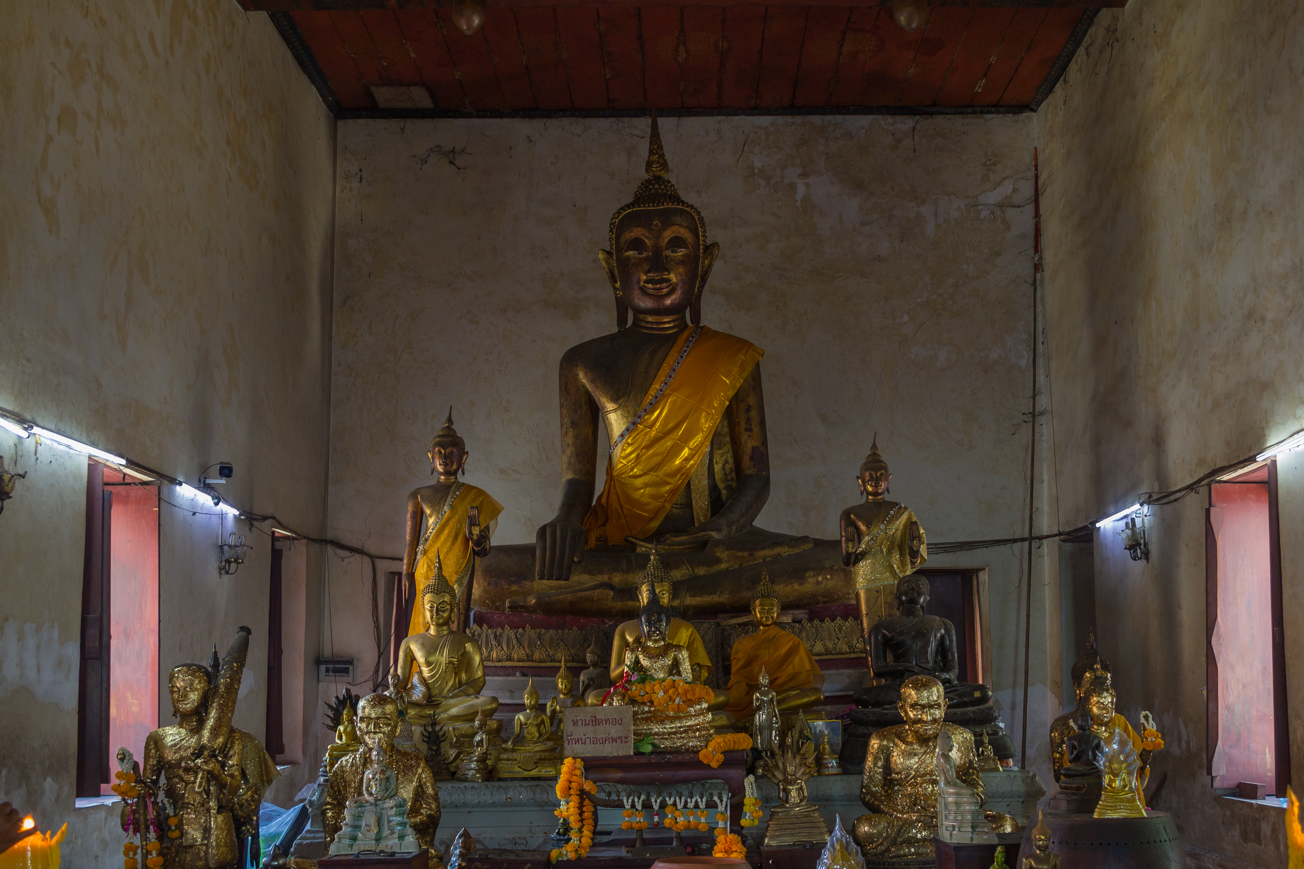 Phra Buddha Sri Roj Chanachai at Ubosot of Wat Saeng Siri Tham, Amphoe Pak Kret, Nonthaburi province, central Thailand.